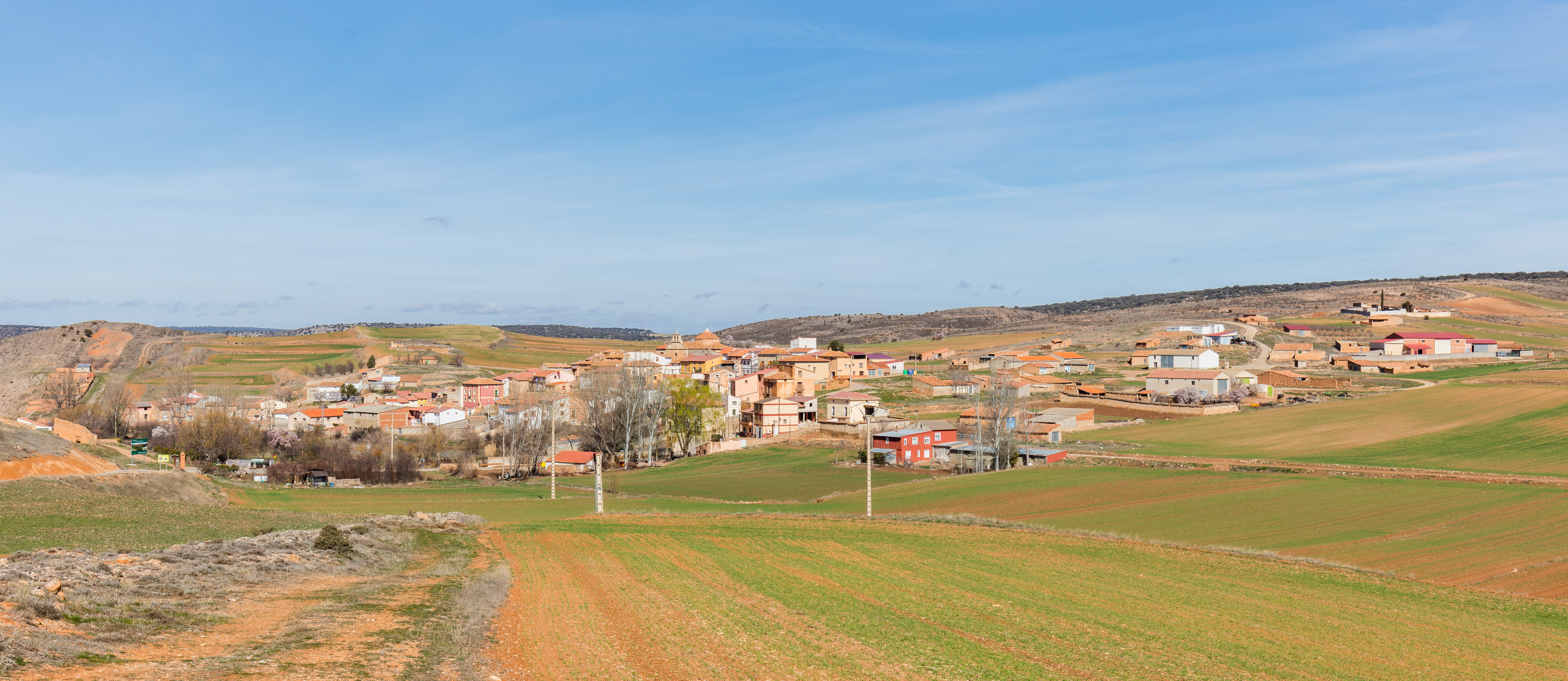 Aldehuela de Liestos, Zaragoza, Spain